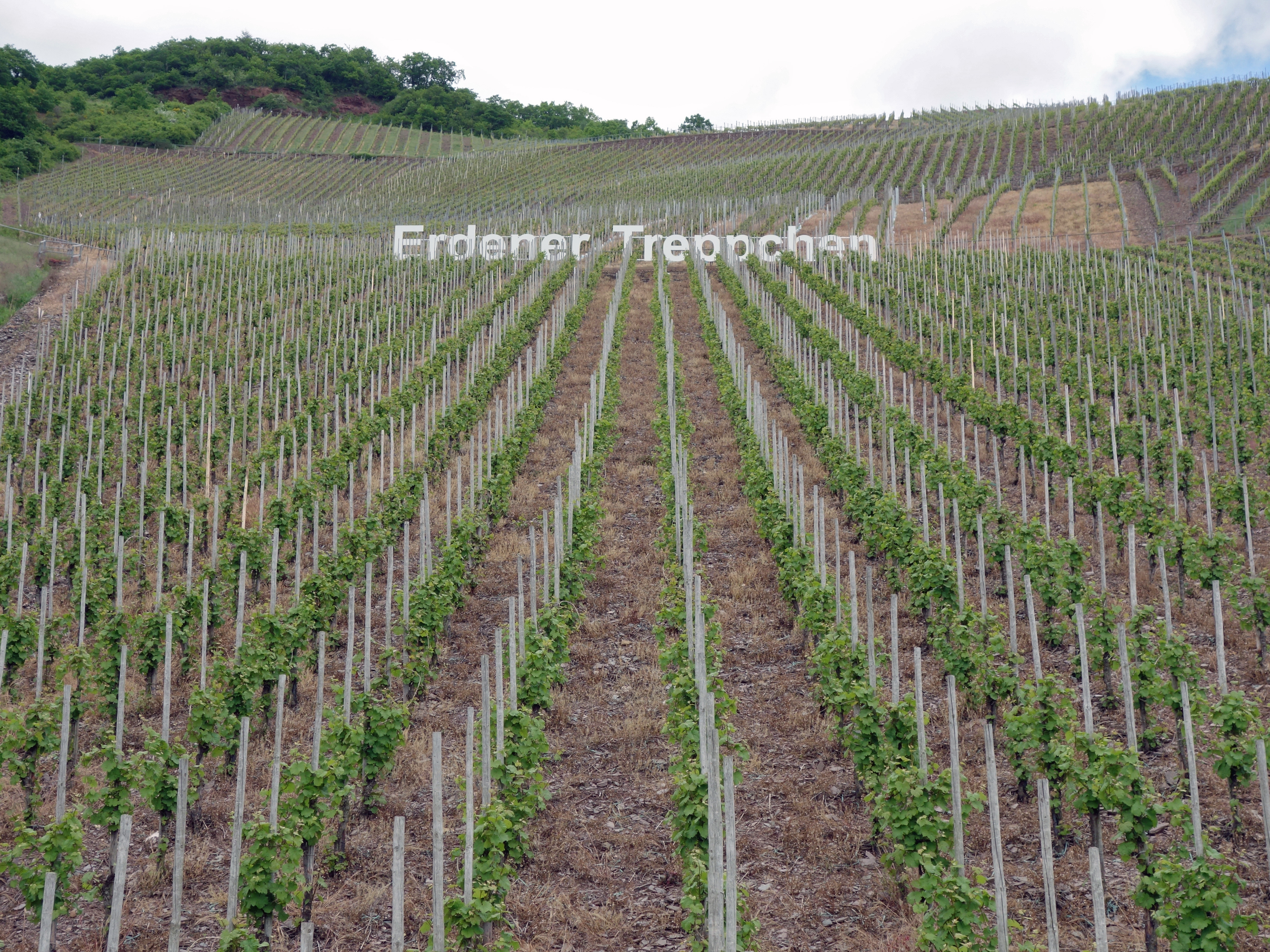 Erdener Treppchen vineyard site in Erben on the Moselle river, Germany.